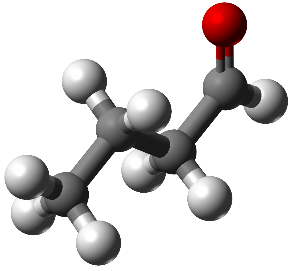 Butanal molecule 3D model (methodology)